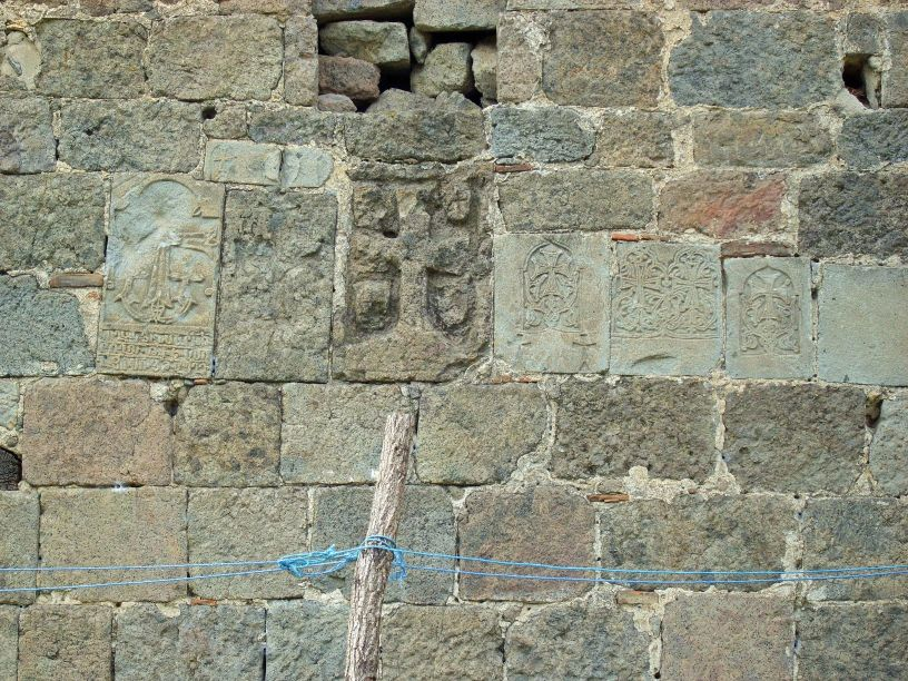 Kaymakli monastery Khachkars, Trabzon, Turkey (P.S. Date and time of data generation error)